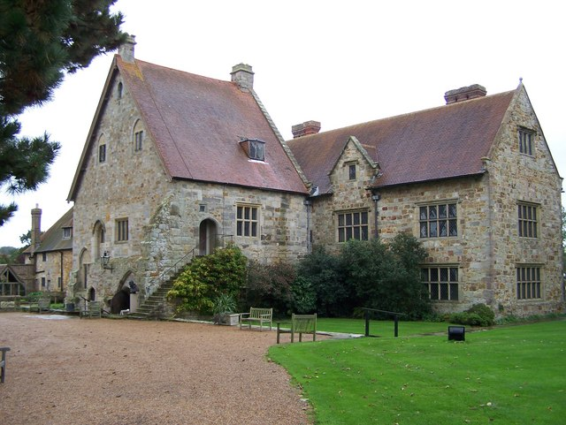 Michelham Priory Main Walk In